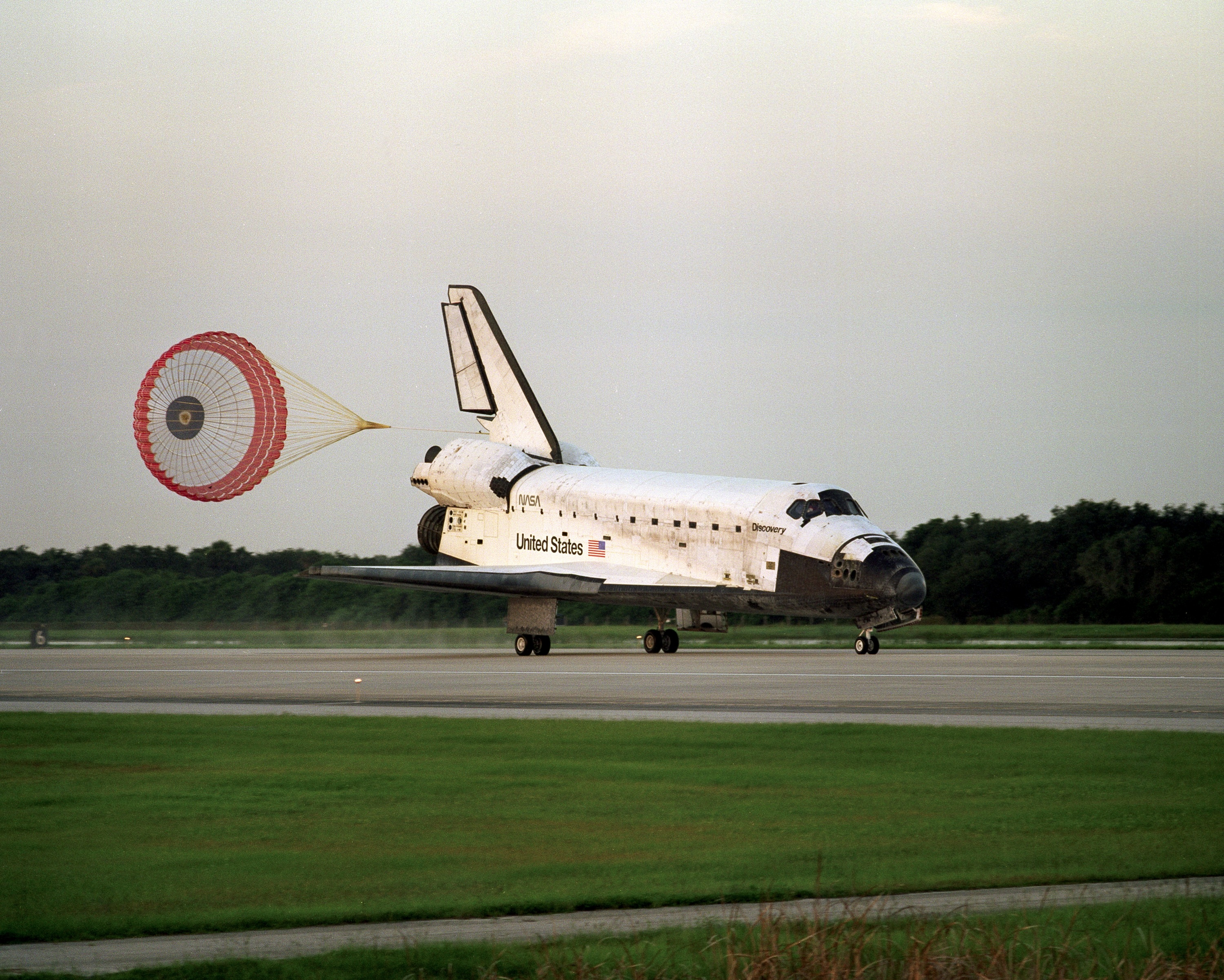 The drag chute of the Space Shuttle Discovery is fully deployed in this scene of the spacecraft's landing on runway 33 at the Kennedy Space Center (KSC). The landing, at 7:08 a.m. (EDT), August 19, 1997, marked the completion of a successful 12-day STS-85 mission. Onboard were astronauts Curtis L. Brown, Jr., mission commander; Kent V. Rominger, pilot; N. Jan Davis, payload commander; and Robert L. Curbeam, Jr., and Stephen K. Robinson, both mission specialists; along with payload specialist Bjarni Tryggvason, representing the Canadian Space Agency (CSA).